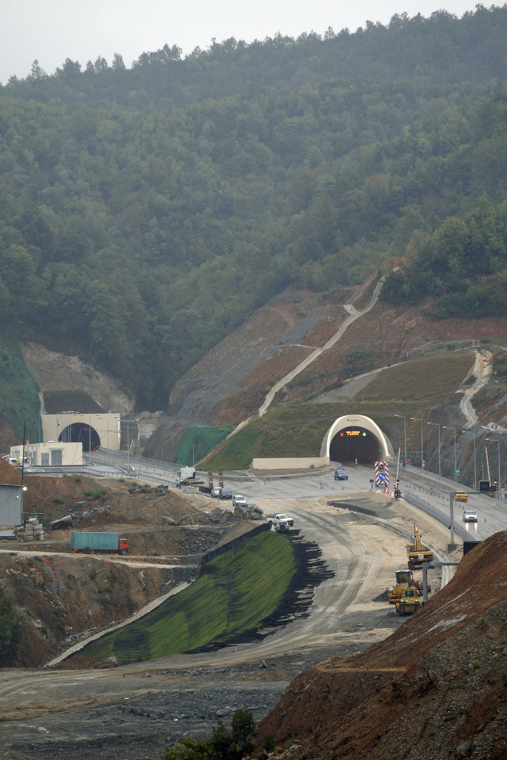 Kërrabë tunnel on Tirana-Elbasan highway, Albania